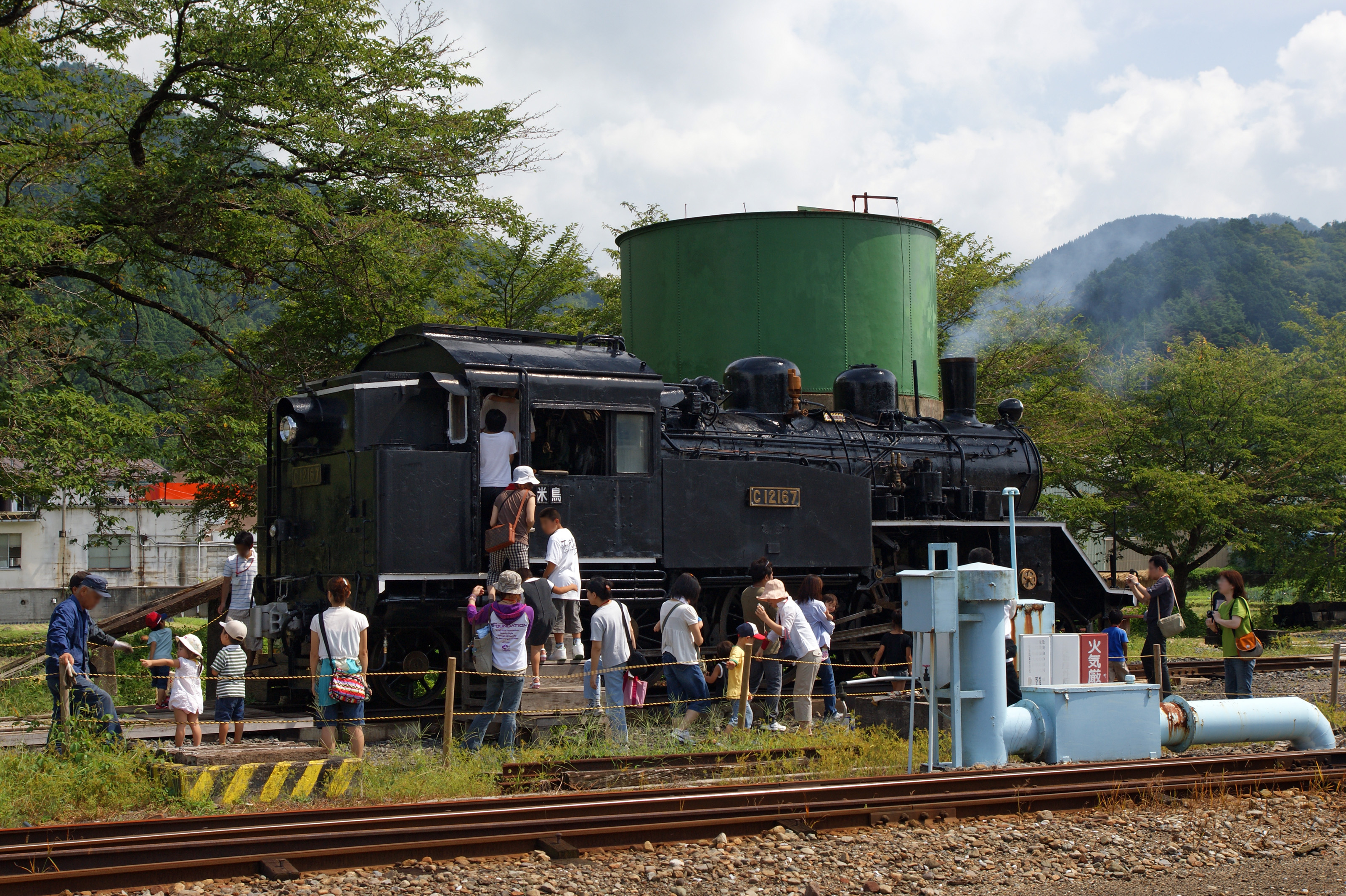 Wakasa Station in Wakasa, Tottori prefecture, Japan